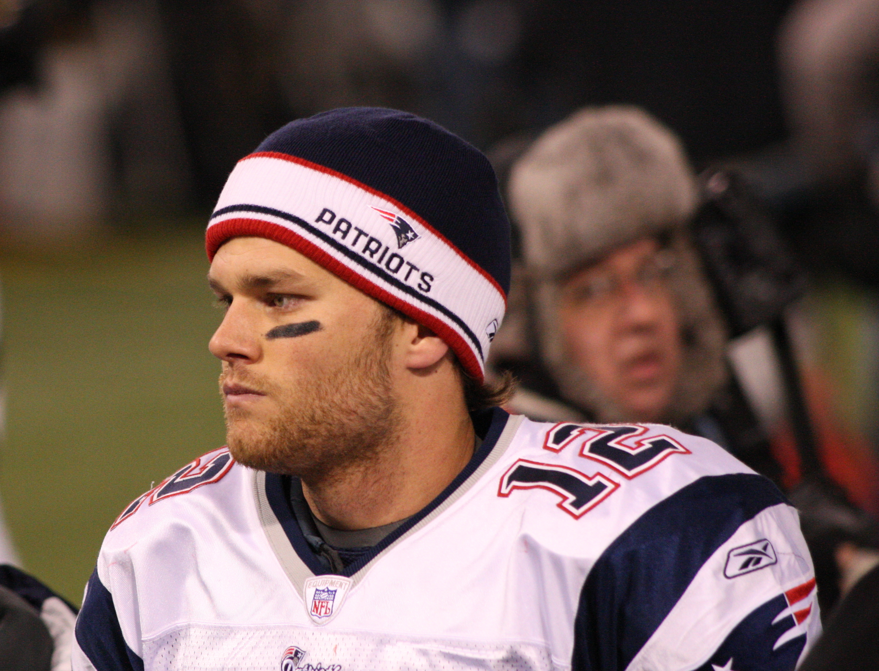 Tom Brady